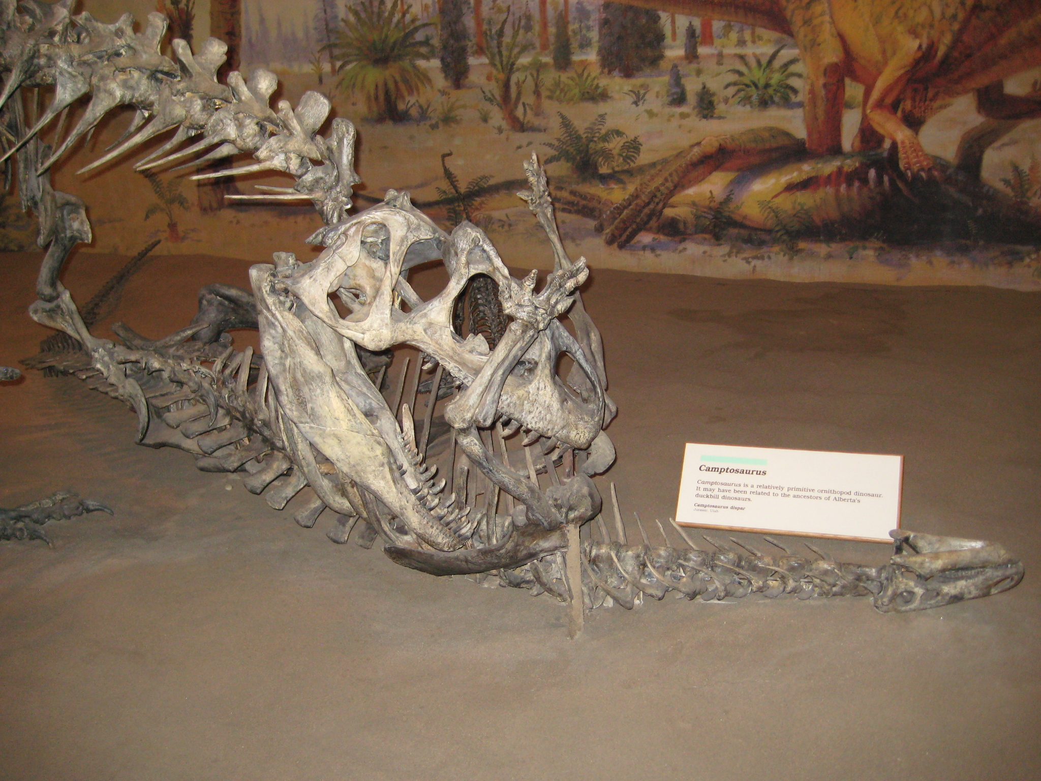 Survival Of The Fittest, Royal Tyrrell Museum of Palaeontology